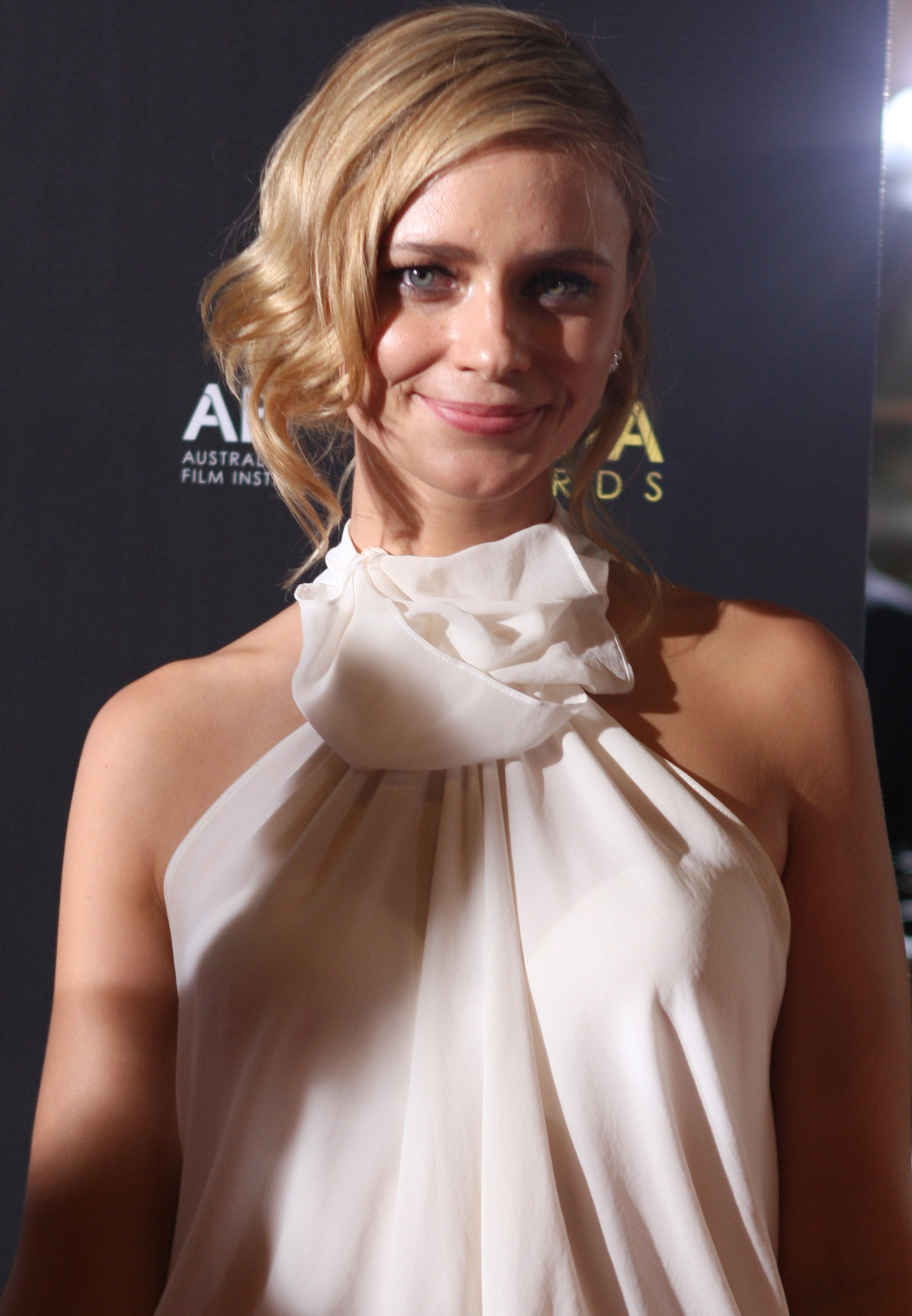 Actress Maeve Dermody at the AACTA Awards in Sydney, Australia on 31 January 2012